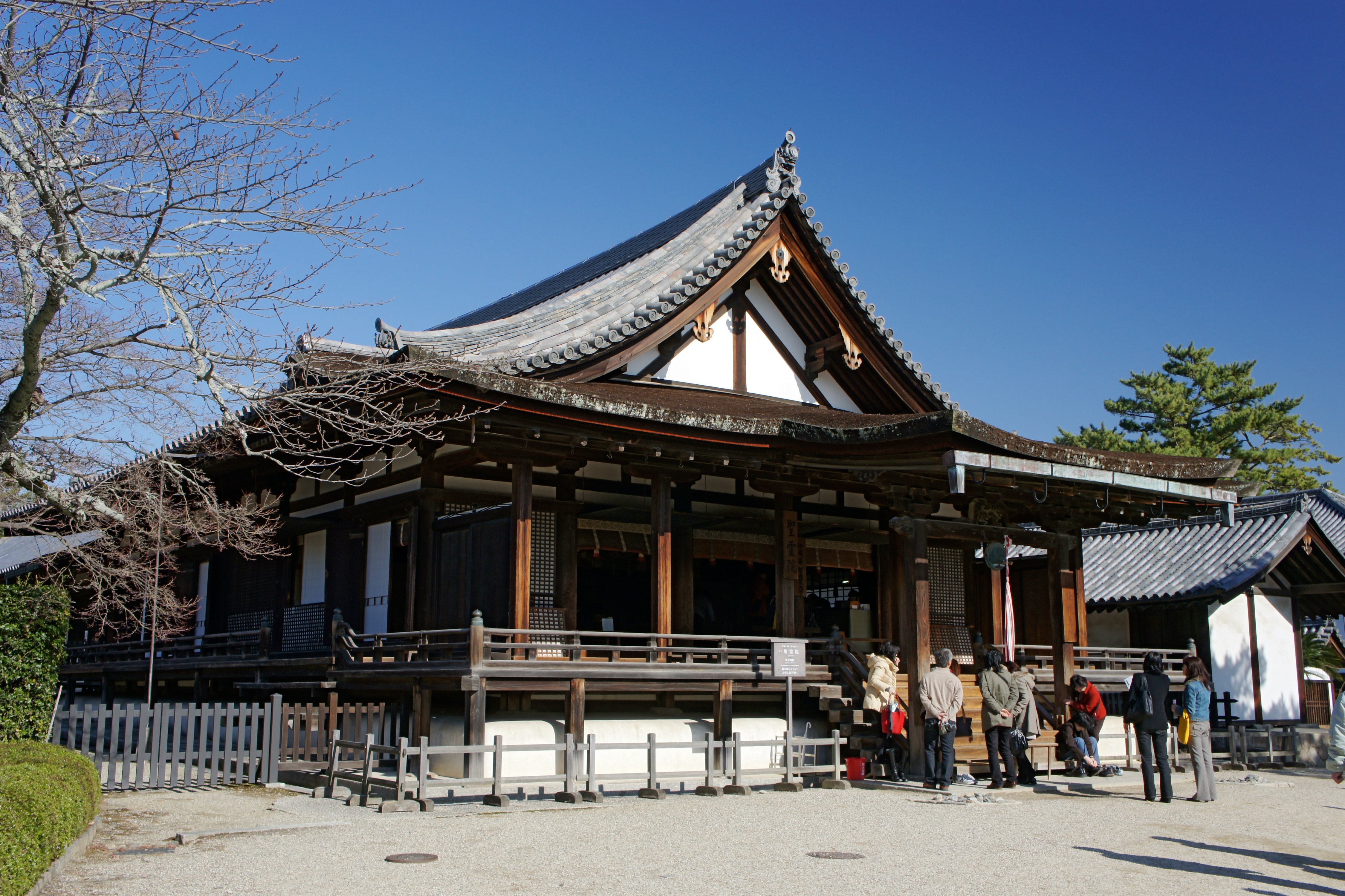 Shōryō-in of Hōryū-ji is a Japan's National Treasure. Hōryū-ji is a Buddhist temple in Ikaruga, Nara prefecture, Japan. It was registered as part of the UNESCO World Heritage Site "Buddhist Monuments in the Hōryū-ji Area".